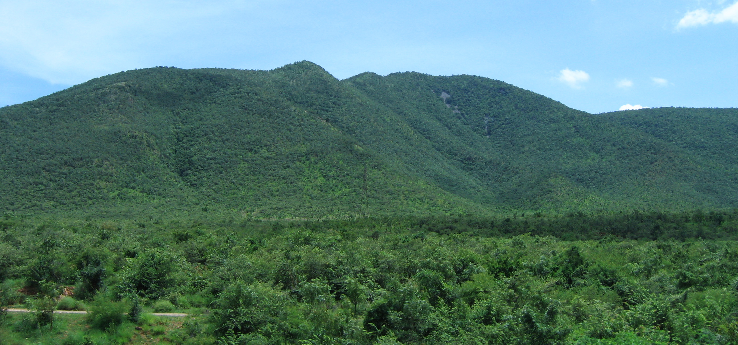 Andhra Pradesh - Landscapes from Andhra Pradesh, views from Indias South Central Railway